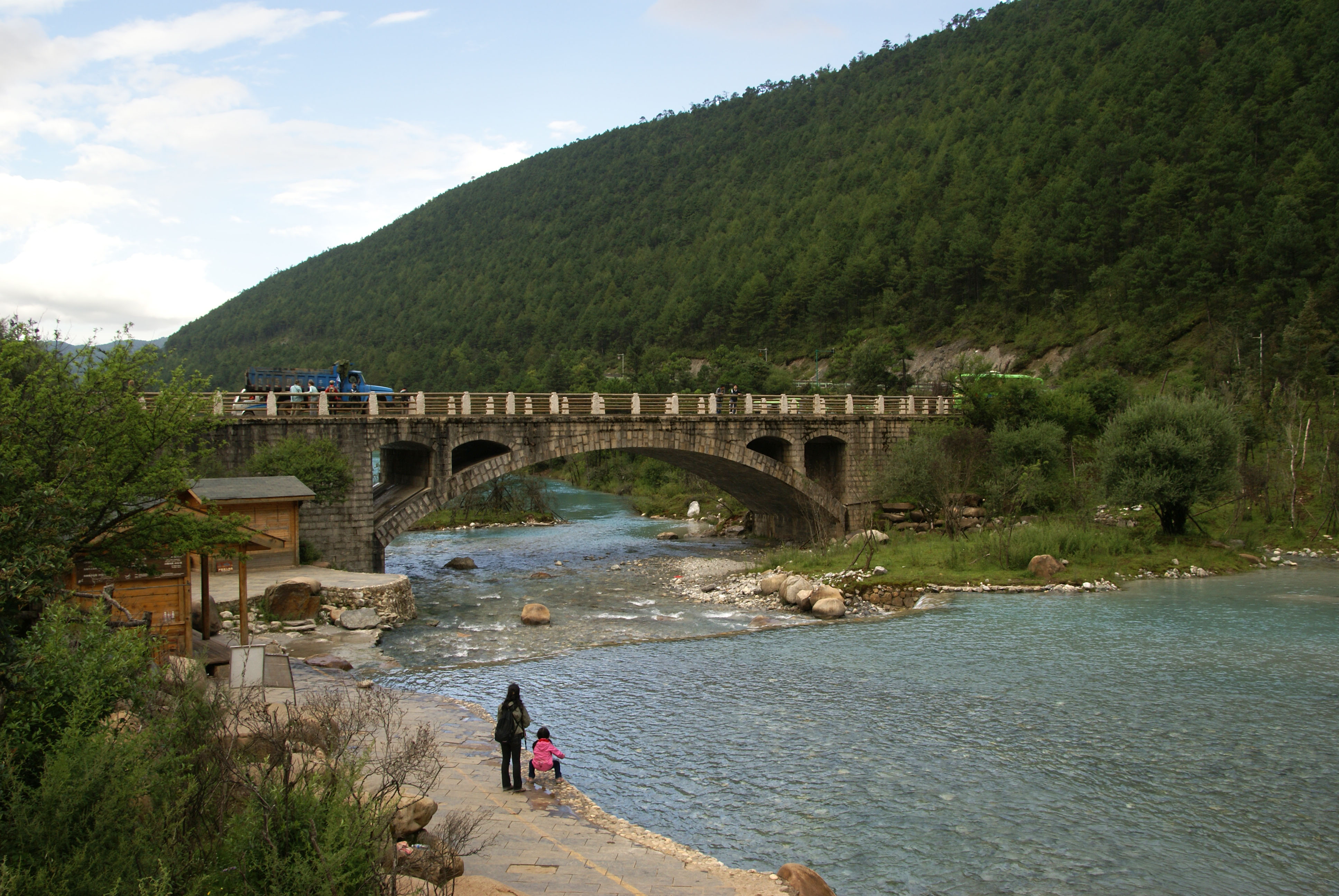 A stone arch bridge in Lijiang mountain, Yunnan, China